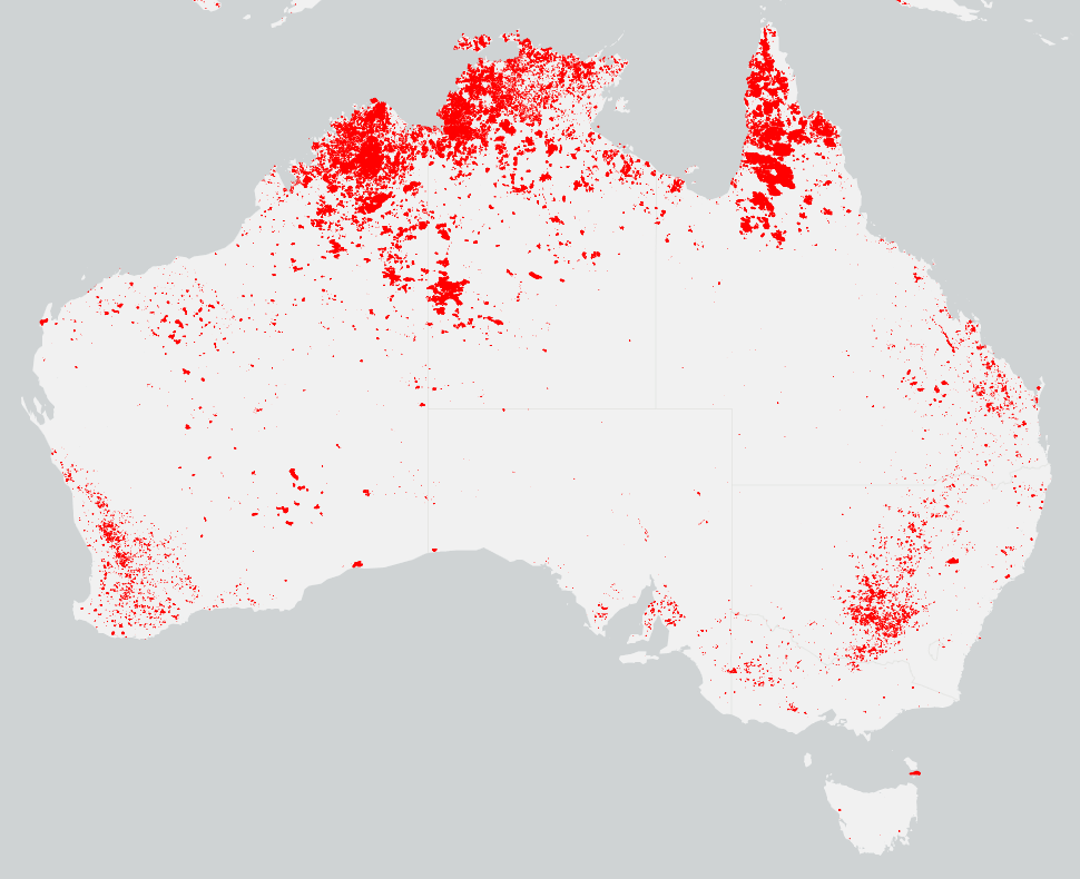 Burned areas shown in red detected by NASA's MODIS imaging sensors onboard Terra & Aqua satellites from June 2016 to May 2017. We acknowledge the use of data and imagery from LANCE FIRMS operated by NASA's Earth Science Data and Information System (ESDIS) with funding provided by NASA Headquarters.